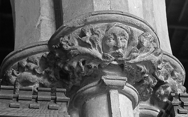 Scan from a 35mm photograph which I took in a church (probably Alkborough, North Lincolnshire?) some time in the 1970s. It shows a carving of a foliate head, or "Green Man". This scan is in the Public Domain (however, I retain ownership and copyright of the original negative and any higher-resolution scans derived from it). If you use the photo outside Wikipedia, a photographer's credit would be appreciated: Simon Garbutt. SiGarb 23:22, 20 November 2005 (UTC)